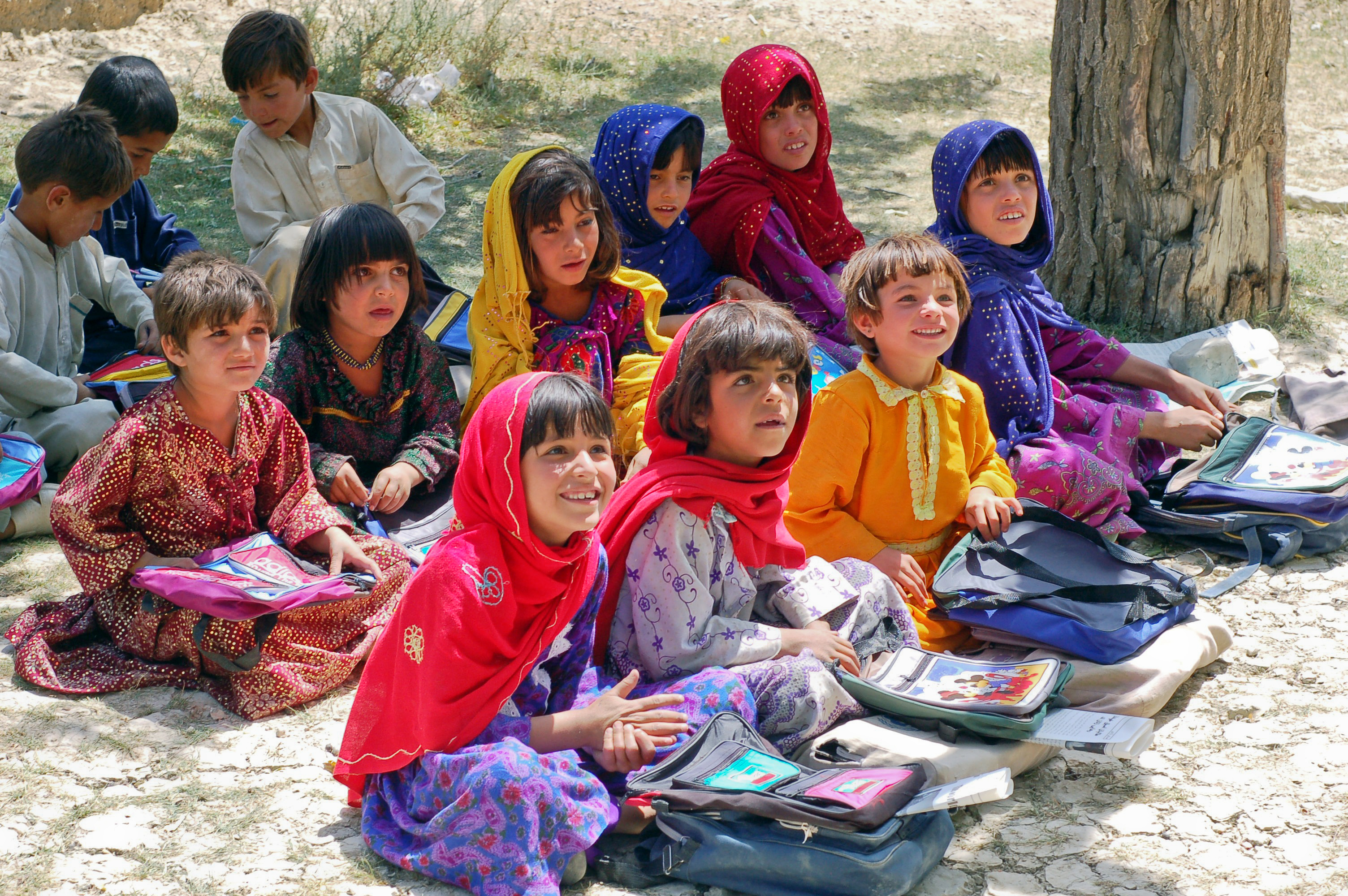 Schoolgirls sit in the girls' section of a school in Bamozai, near Gardez, Paktya Province, Afghanistan. The school has no building; classes are held outdoors in the shade of an orchard.